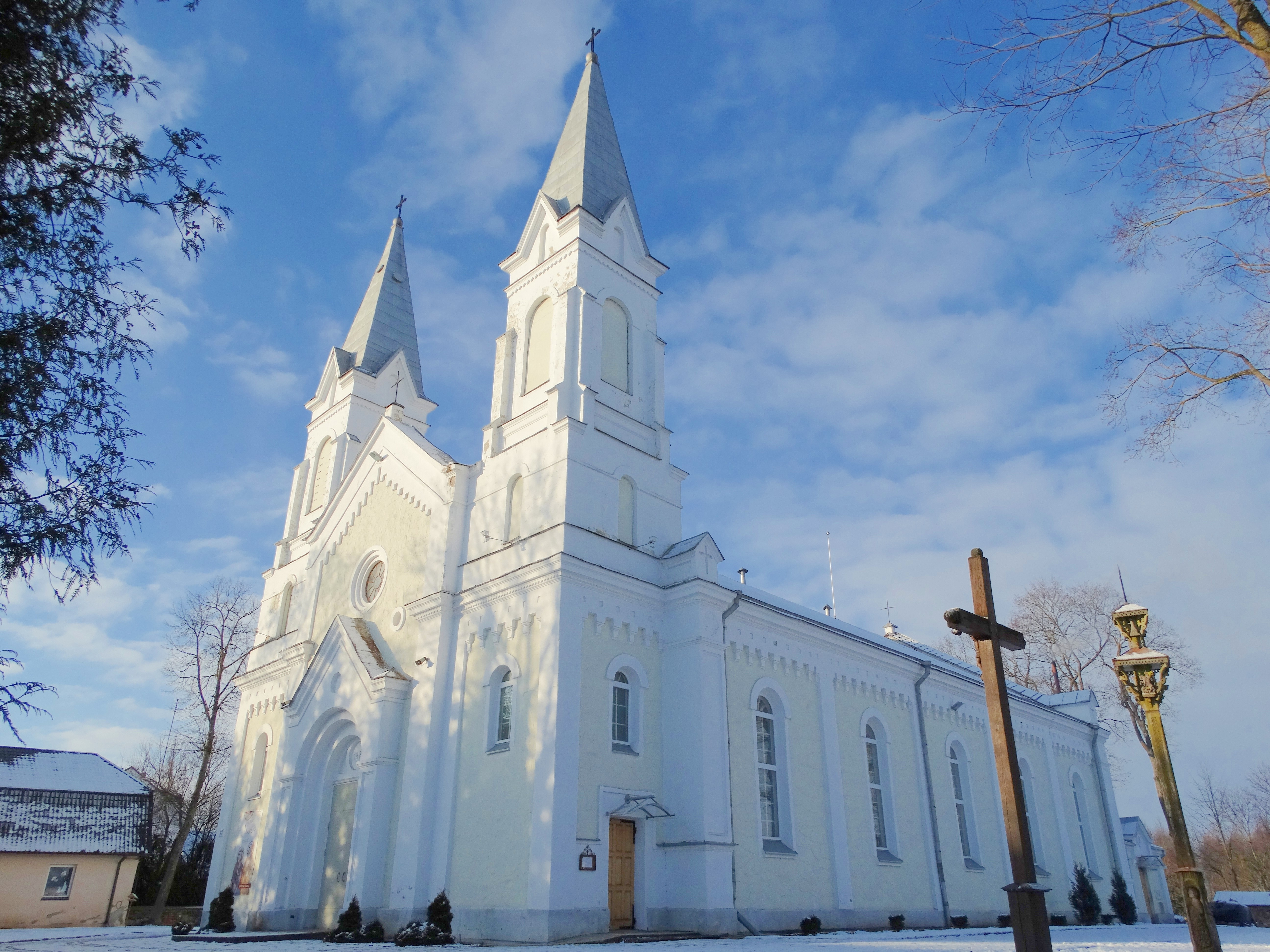 Church of St. John the Baptist, Pakruojis, Lithuania